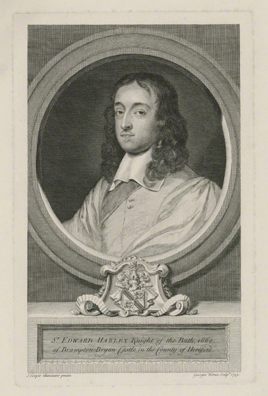 Portrait of Sir Edward Harley (1624–1700), English politician.